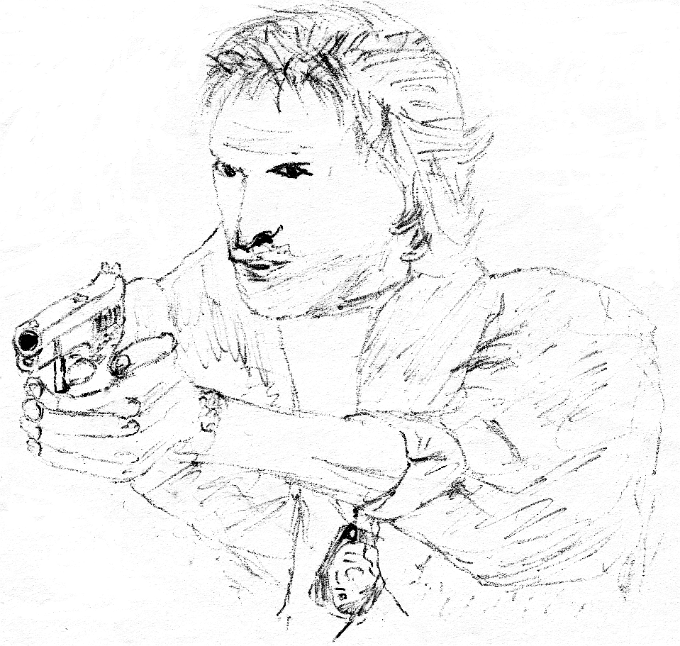 Drawing I did of Sonny Crockett (played by Don Johnson) of Miami Vice in 1986